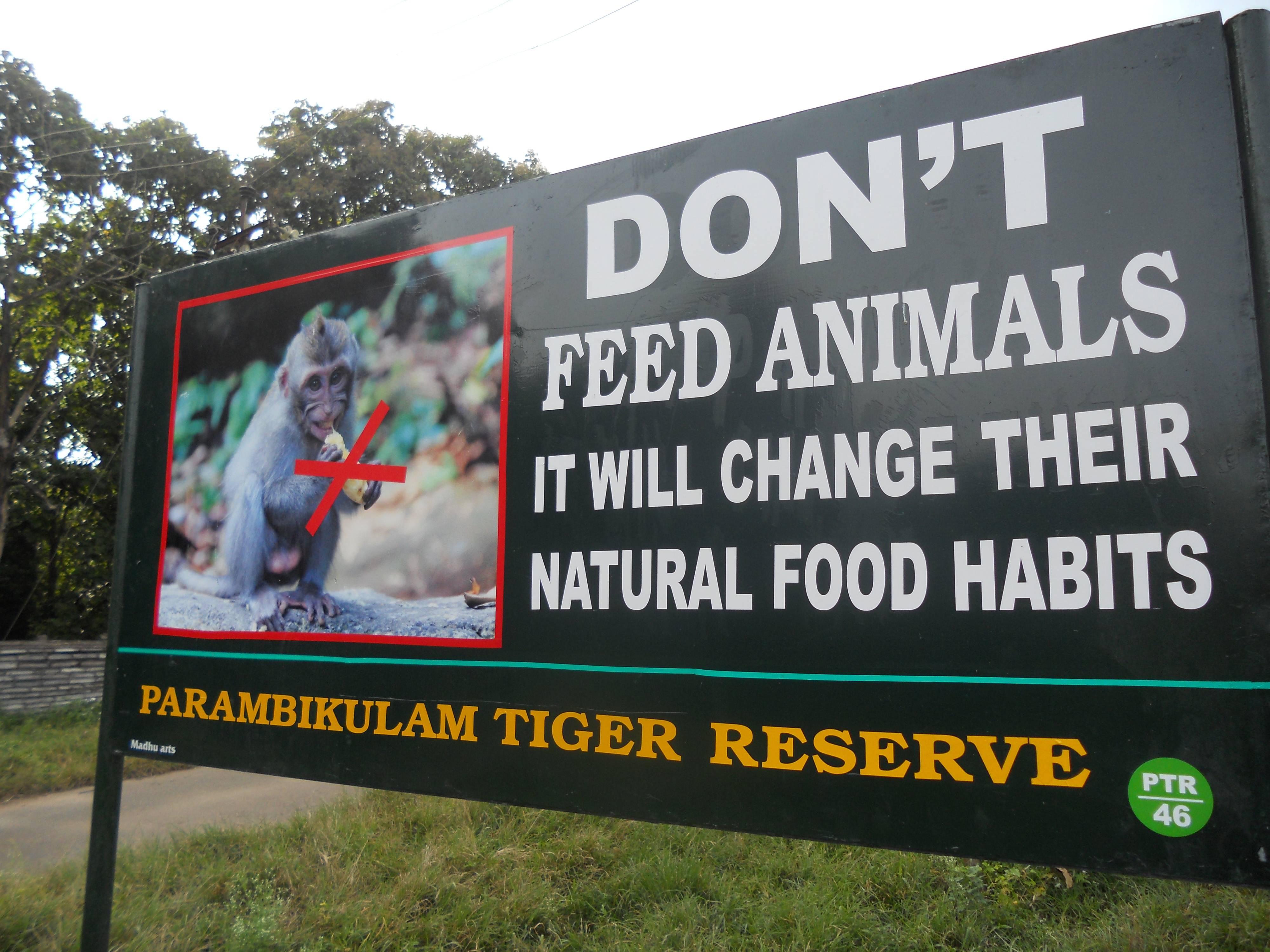 A visitor information signage at Parambikulam Tiger Reserve. Photo Credits: Ajith, Parambikulam Tiger Conservation Foundation